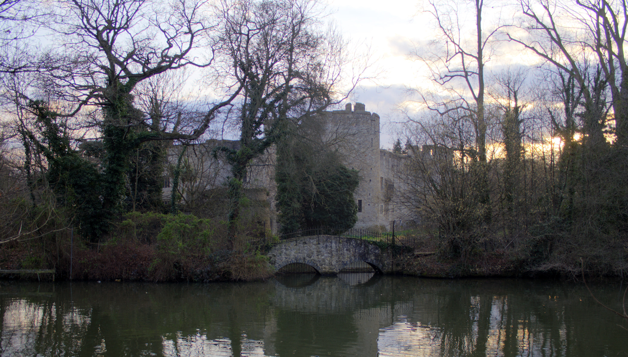 Allington Castle from across the River Medway